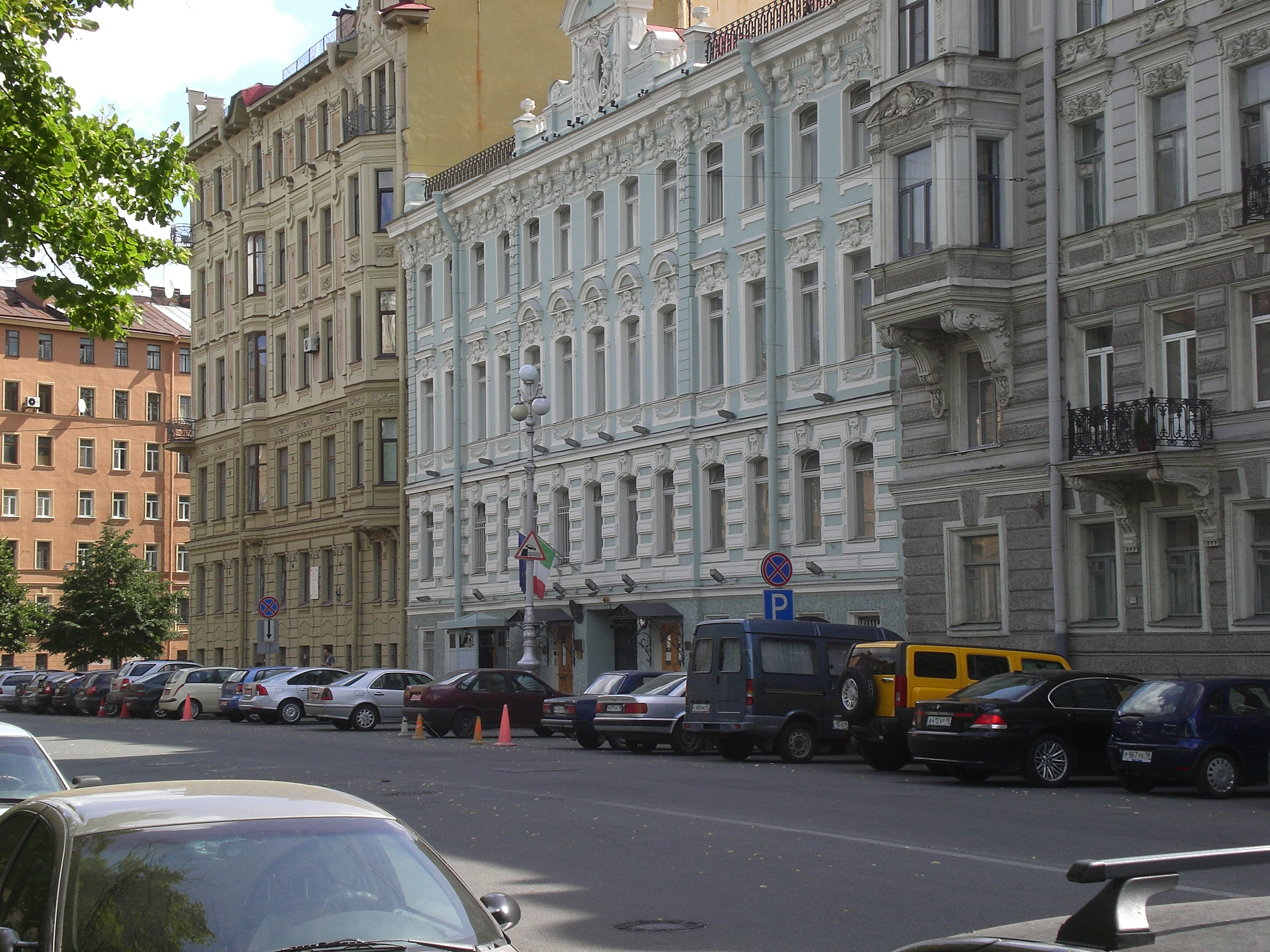 Saint Petersburg (Russia), General Consulate of Italy in Saint Petersburg.